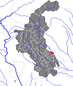 This map shows the area of the Gemeinde (municipality) Hirnsdorf in the Bezirk (district) Weiz, Styria, Austria.